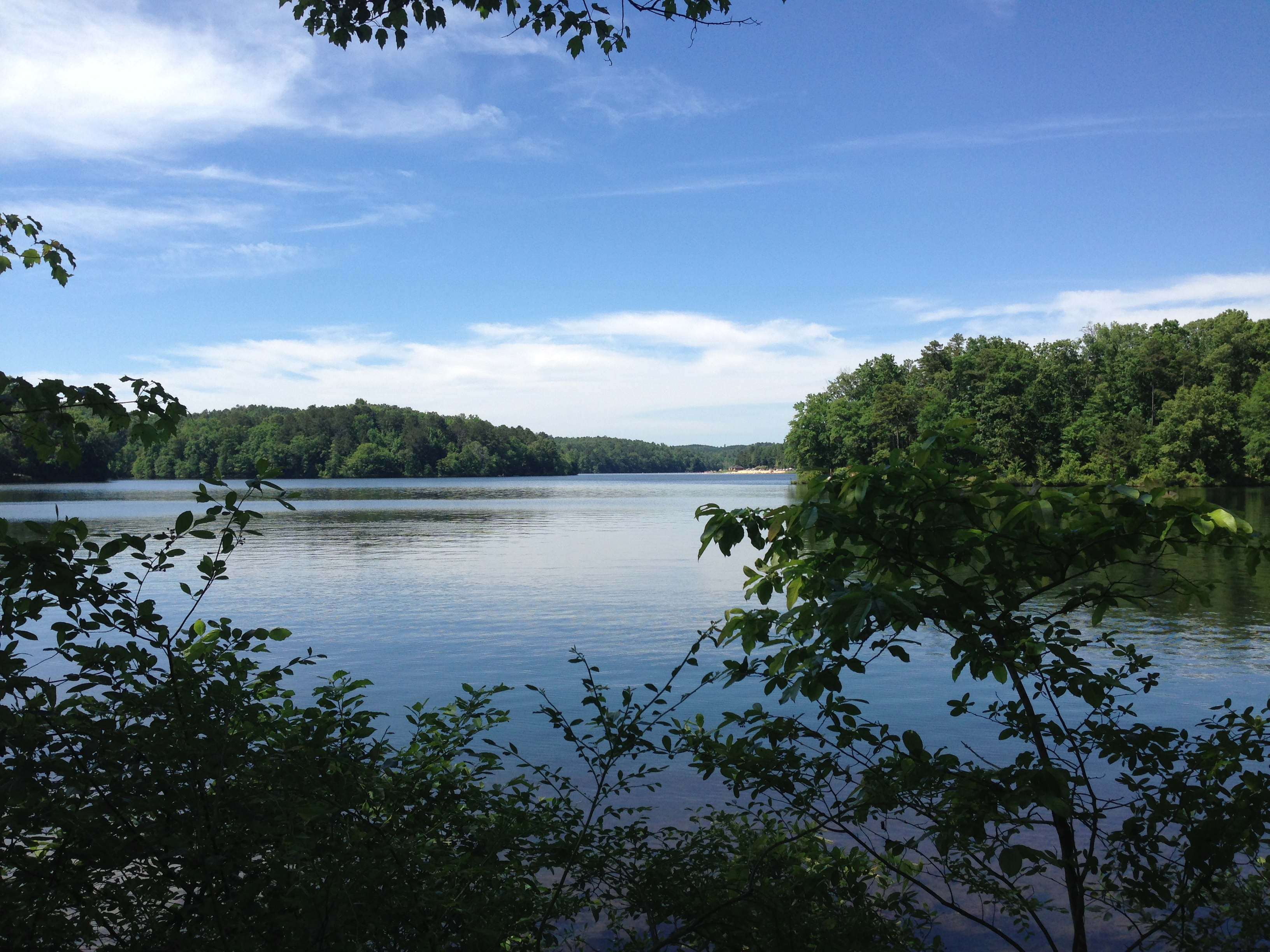 A photo of Lake Lurleen from the lake side trail.